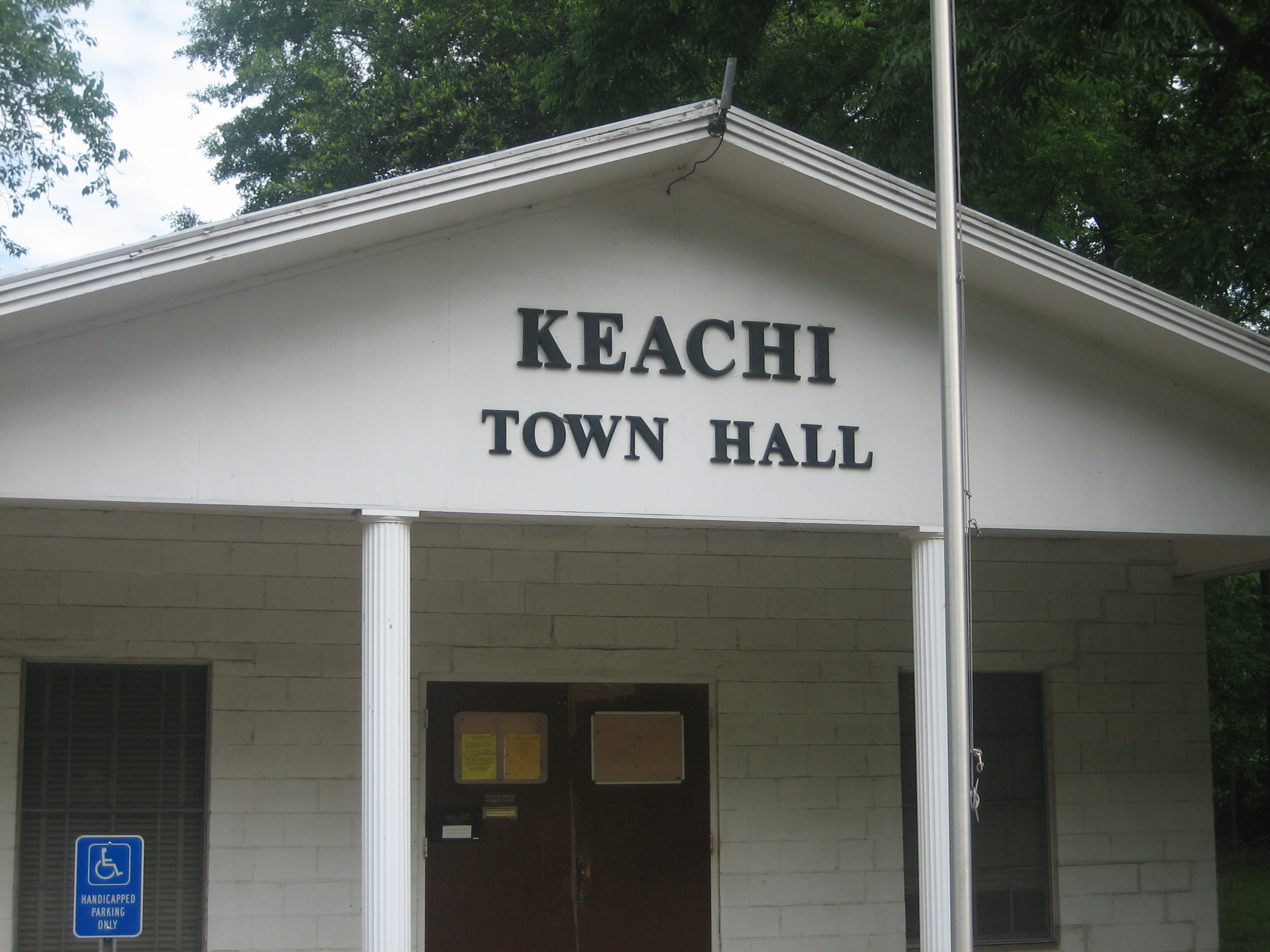 I took photo on May 27, 2009.Billy Hathorn (talk) 14:58, 31 May 2009 (UTC)